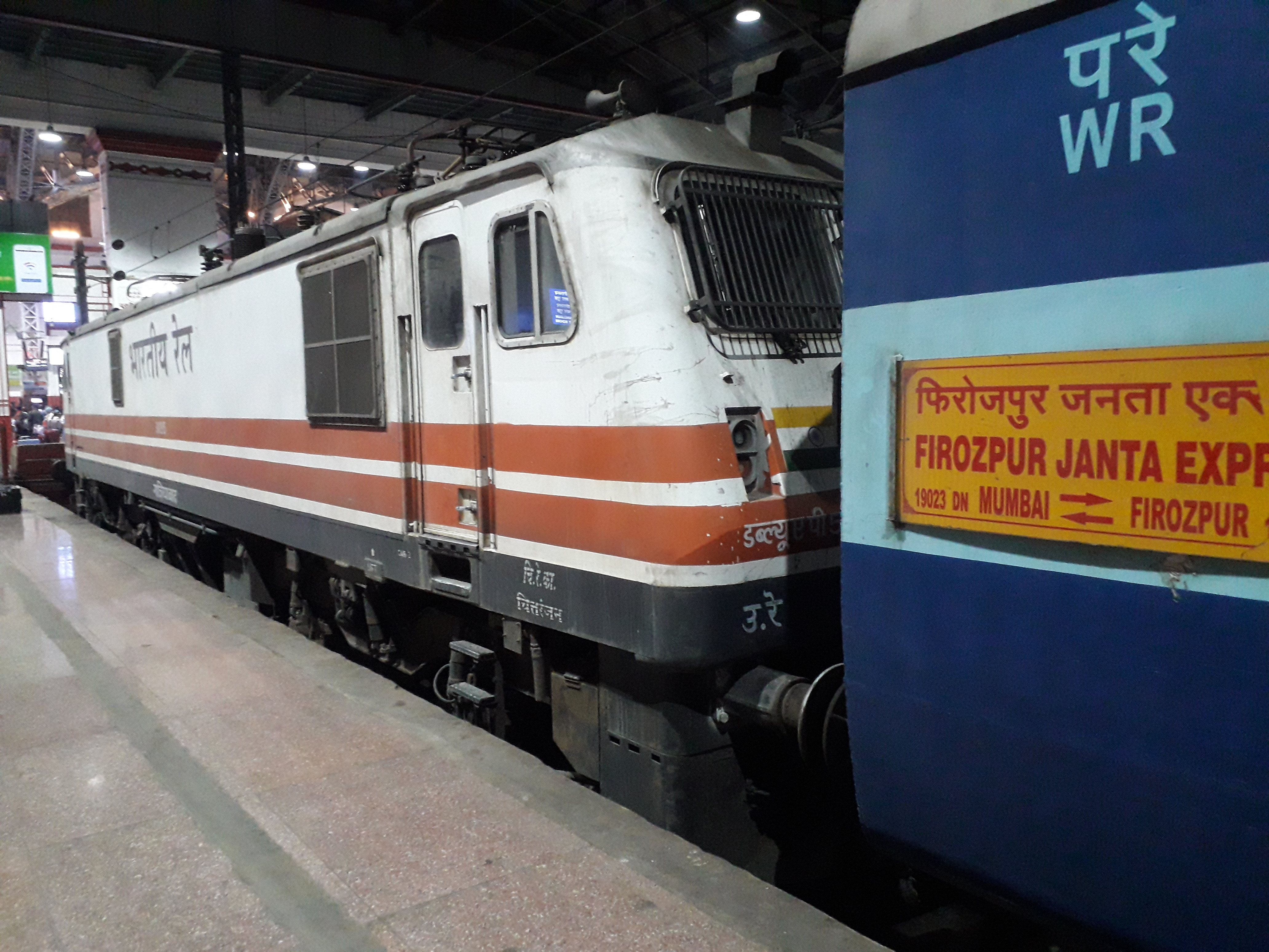 19024 Firozpur Janata Express - Loco WAP 5